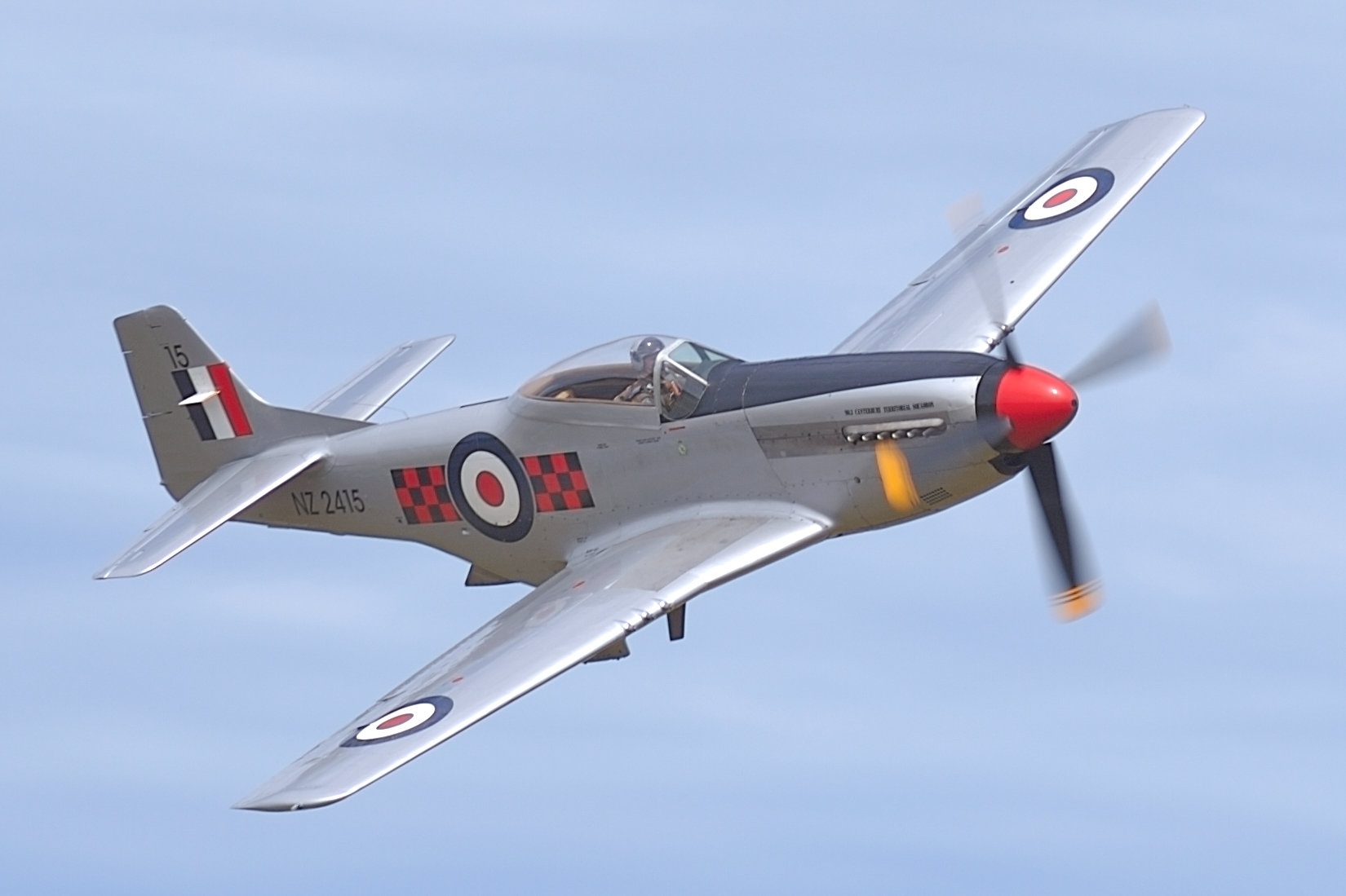 P-51H Mustang at the 2007 Wings over Wairarapa airshow